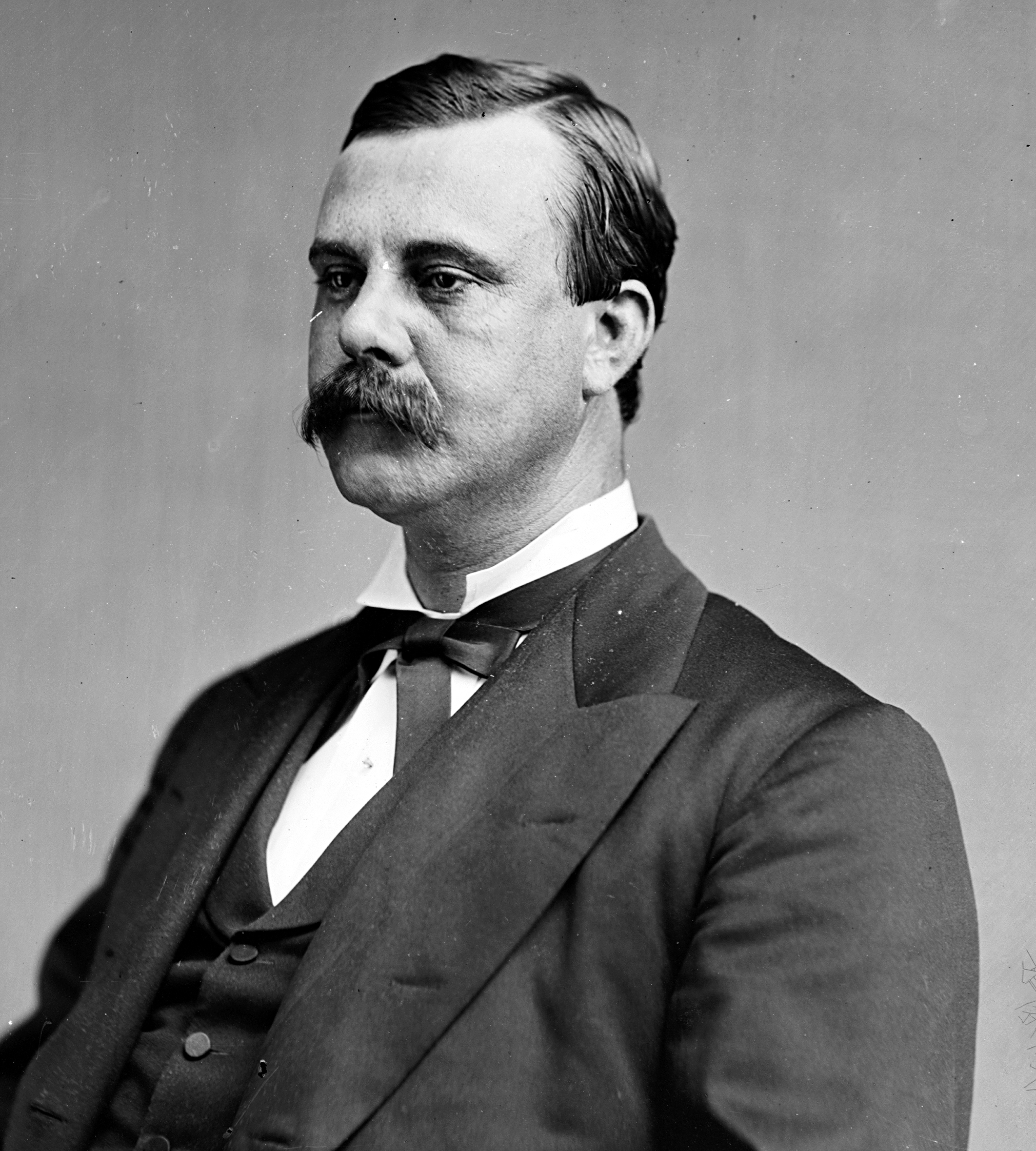 Francis Dolan Collins, US Representative from Pennsylvania